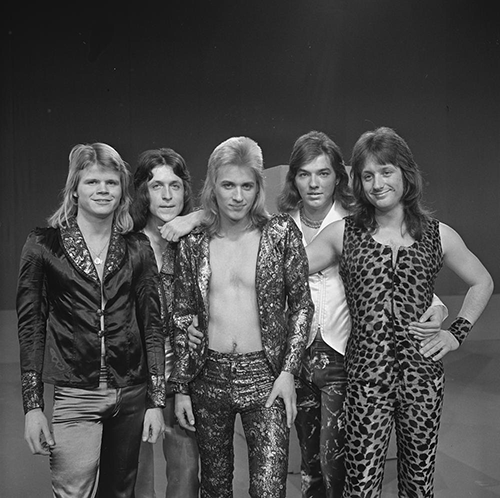 Catapult in AVRO's TopPop (Dutch television show) in 1974